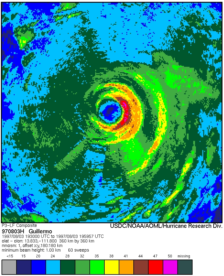 Composite radar sweep of Hurricane Guillermo on August 3, 1997